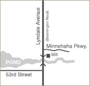 Map showing location of the Richland Mill on Minnehaha Creek and Lyndale Avenue (Bloomington Road) in the Township of Richfield (Present day in the boundaries of Minneapolis, Minnesota). Map illustration by Joe Hoover, 2007, for book: "Richfield: Minnesota's Oldest Suburb" published by the Richfield Historical Society. Reproduced with permission of the artist and released to public domain courtesy of Joe Hoover.